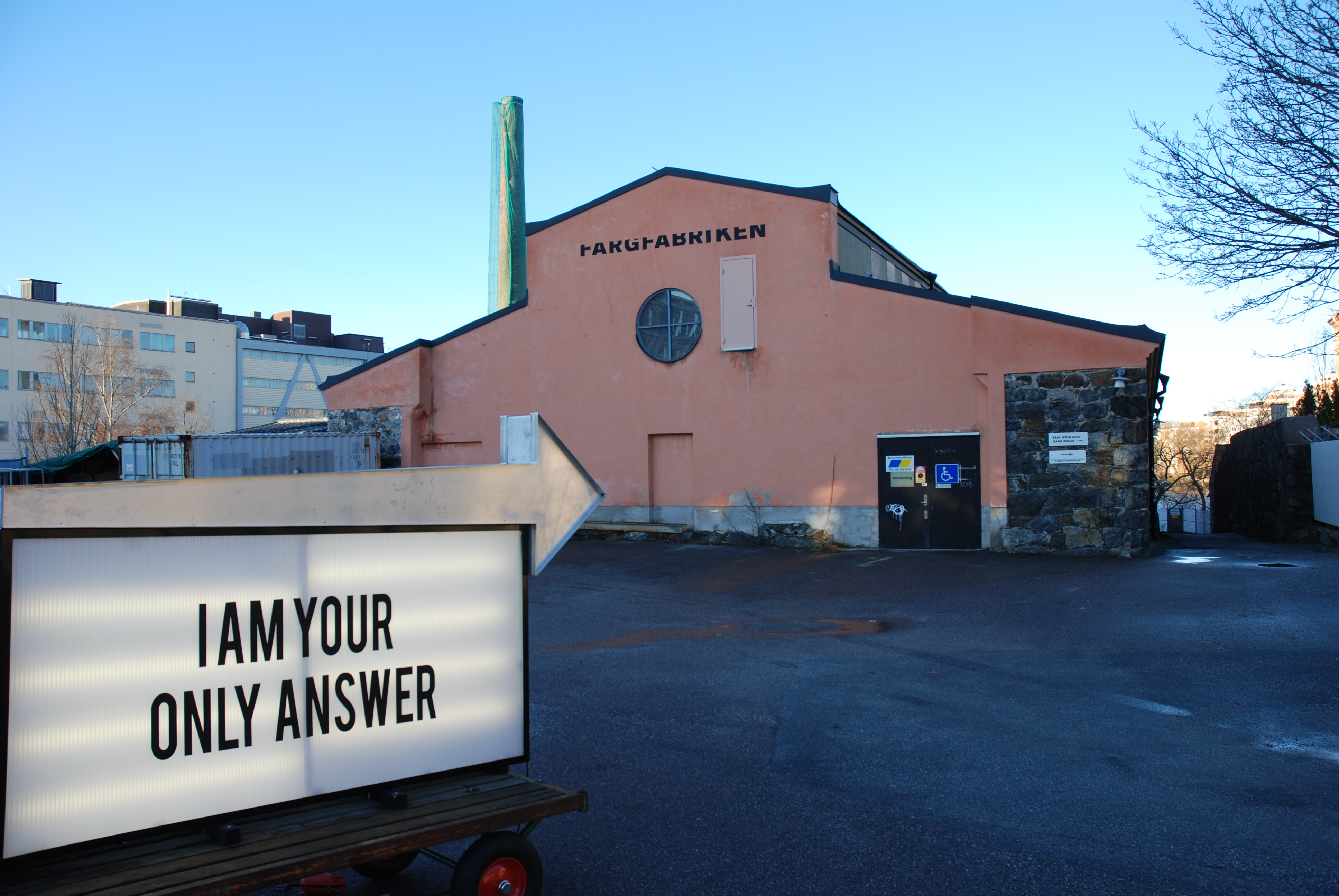 Art Gallery Färgfabriken, Liljeholmen, Stockholm, Sweden. The picture is taken in December, 2008, with sign indicating an exhibition by Swedish contemporary artist Ulrika Sparre.